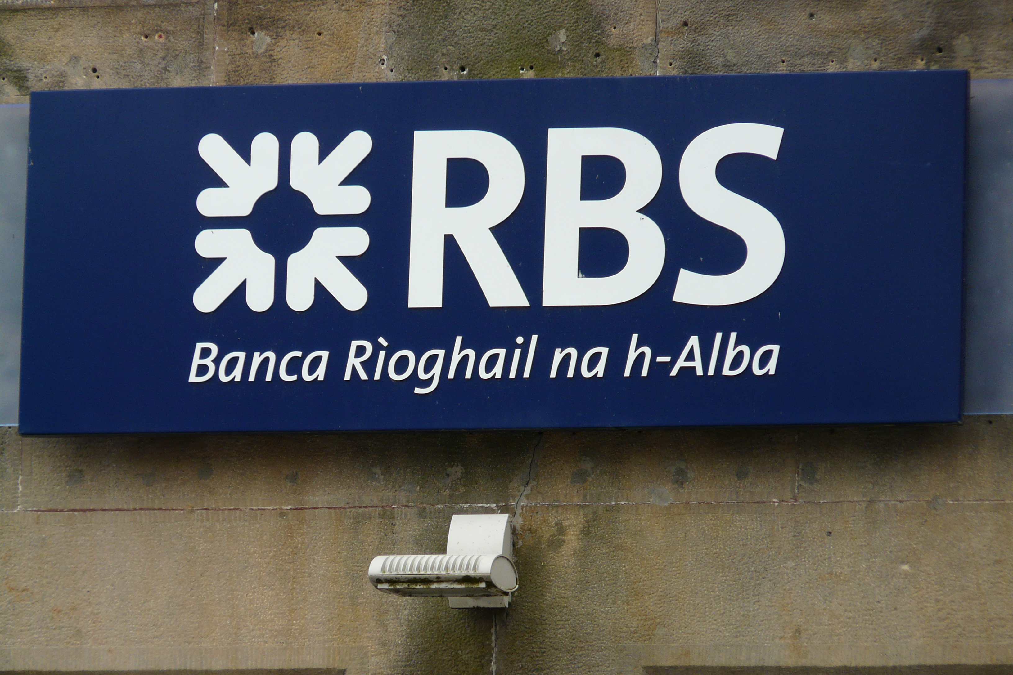 RBS logo, with writing in gaelic scottish, Portree Bank, Isle of skye